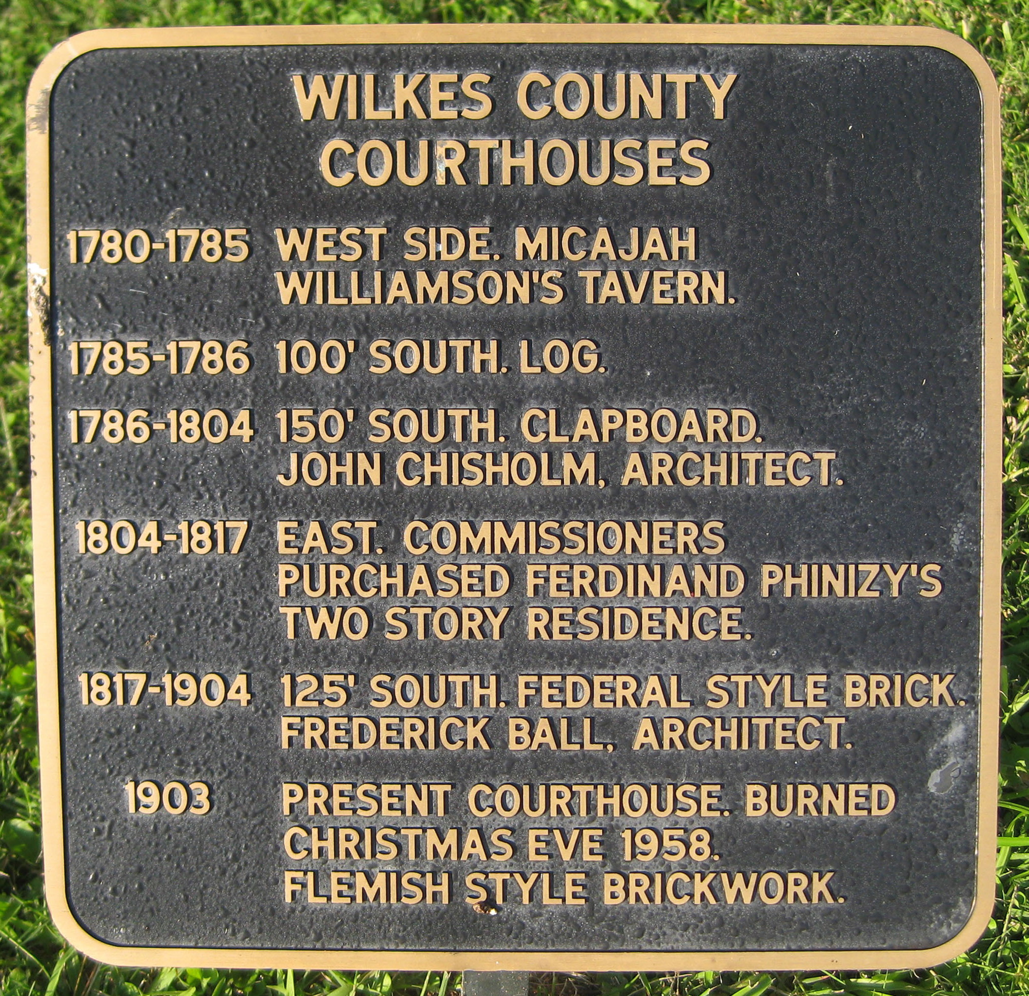 Plaque placed on the Courthouse lawn in Washington, GA lists the dates of the six buildings to serve as County Courthouse during Wilkes County's history.